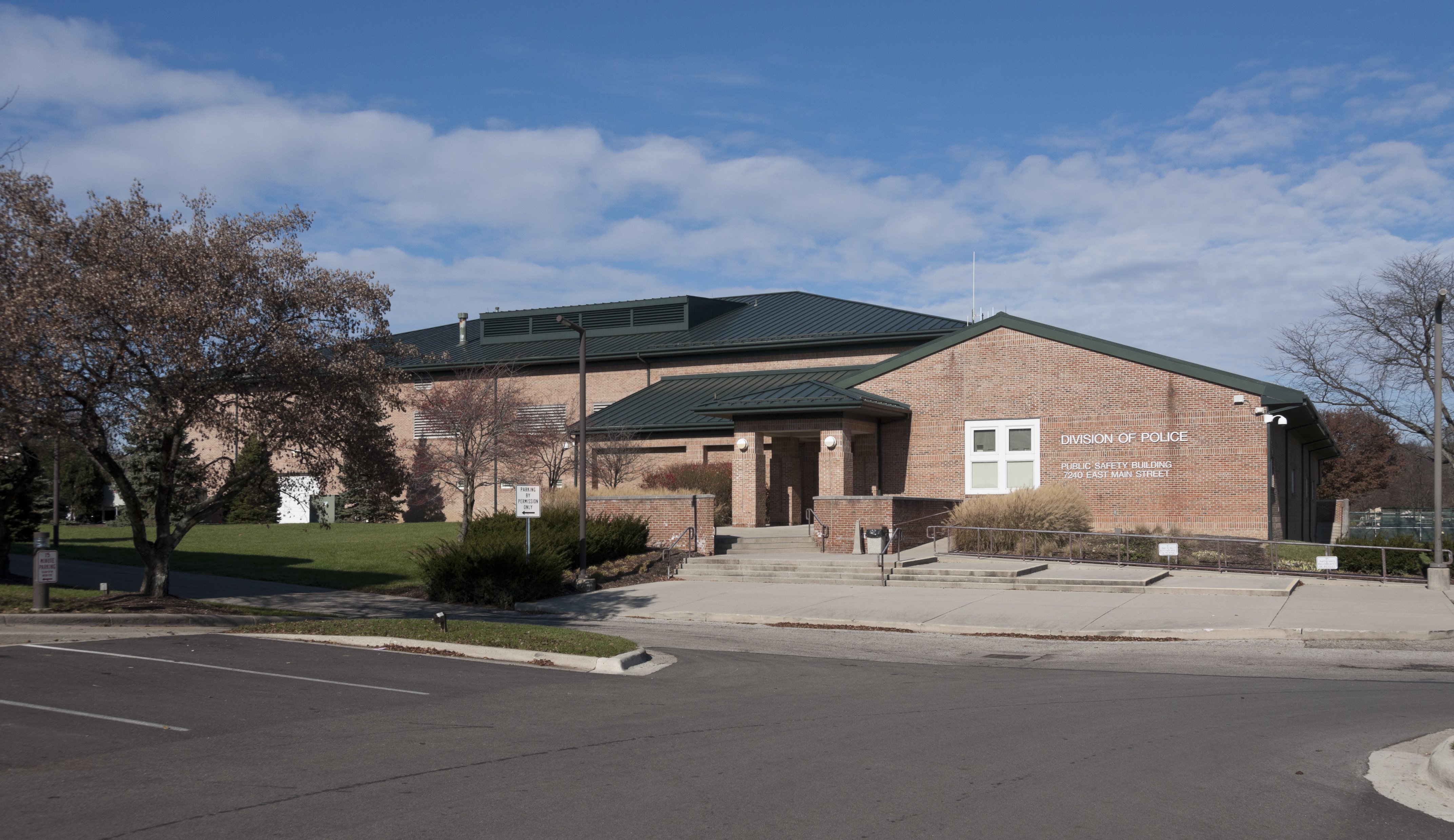 Reynoldsburg, Ohio Police Headquarters taken from the south.